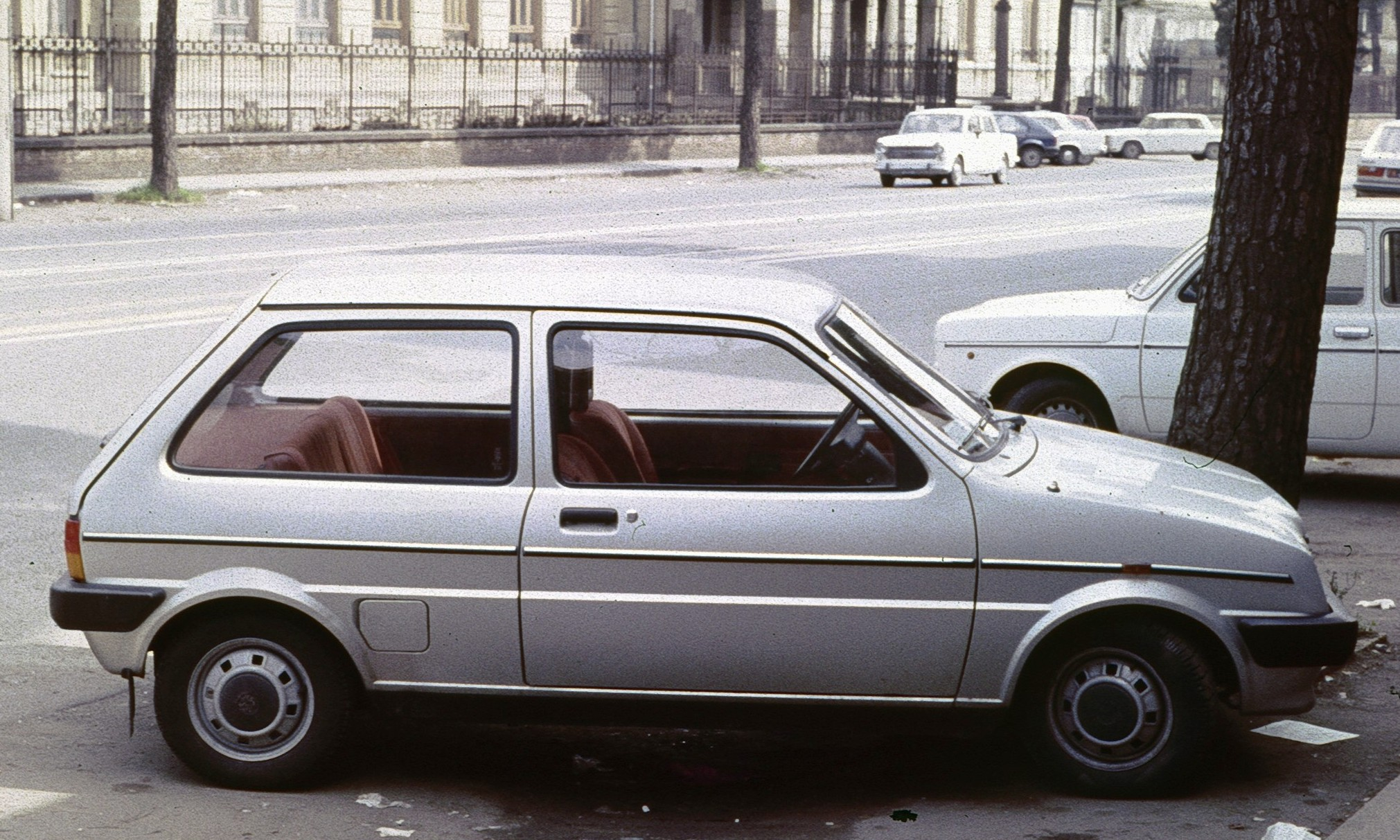 Mini Metro (first version) in Italy